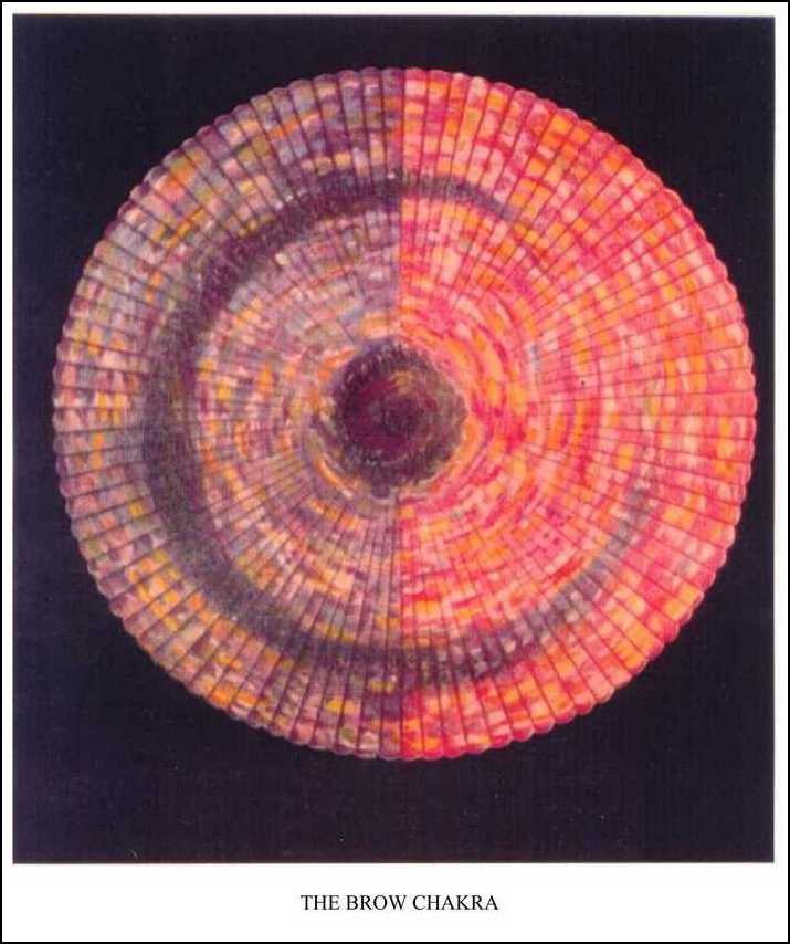 The brow chakra